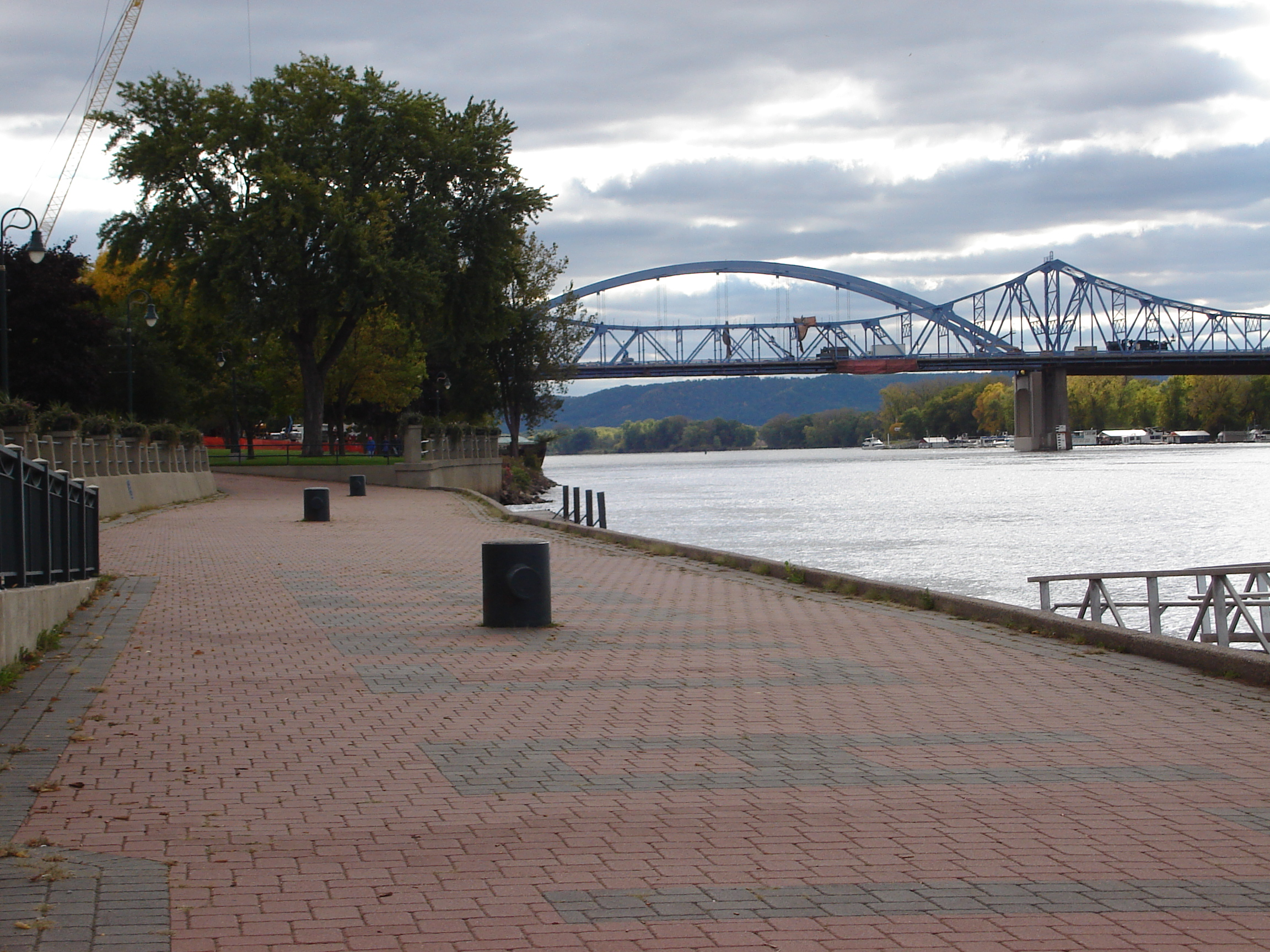 Cass Street Bridge over the Mississippi River in La Crosse, Wisconsin, USA